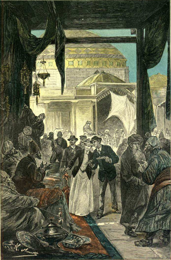 Bazaar in Samarkand, an illustration from Jules Verne's novel "Claudius Bombarnac" (alternate English titles: "The Special Correspondent", "The Adventures of a Special Correspondent", "The Adventures of a Special Correspondent in Central Asia" or "Claudius Bombarnac: Special Correspondent").